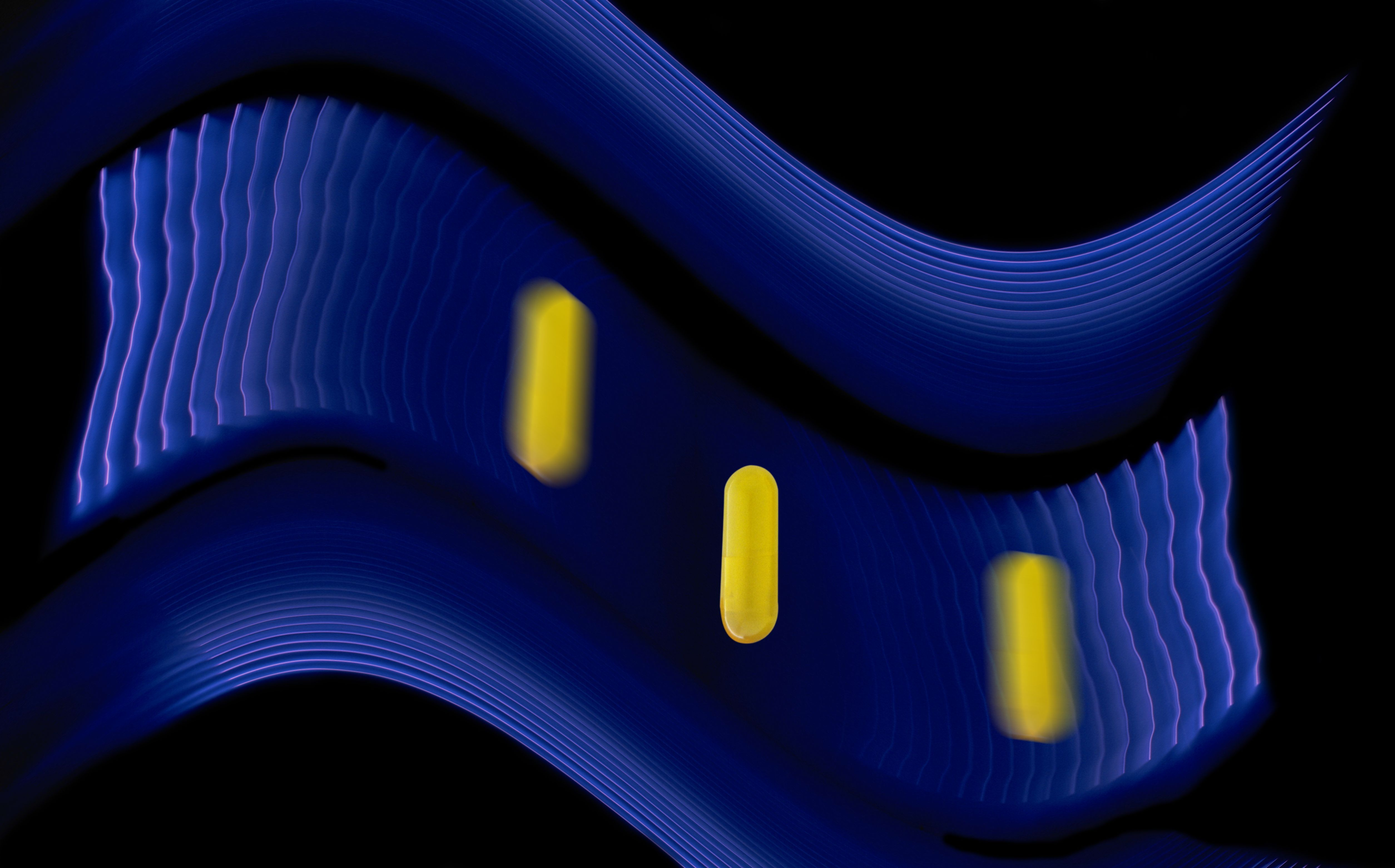 Production of drugs, yellow pills 1995